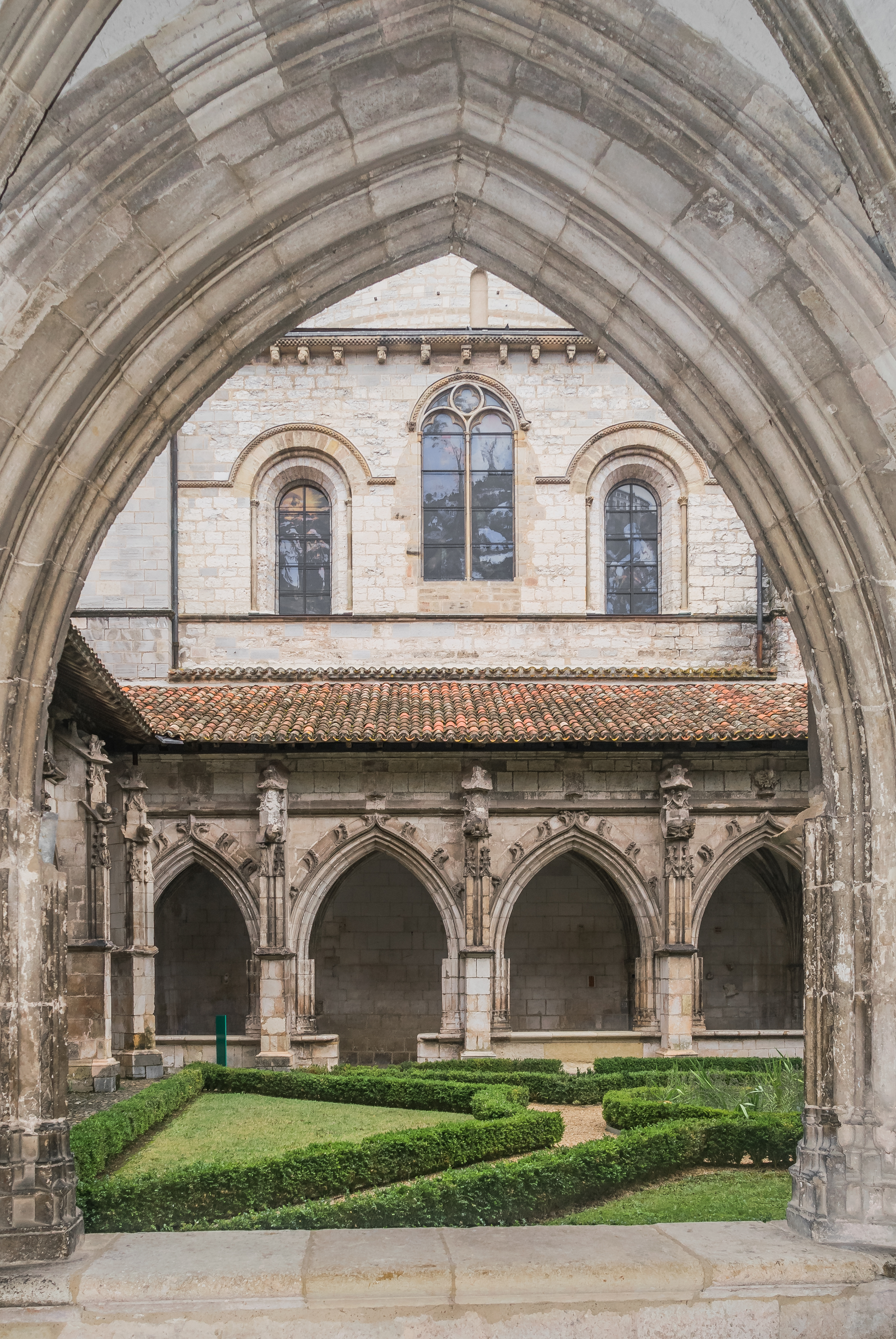 Cloister of the Saint Stephen cathedral of Cahors, Lot, France This place is a UNESCO World Heritage Site, listed as Chemins de Saint-Jacques-de-Compostelle en France.